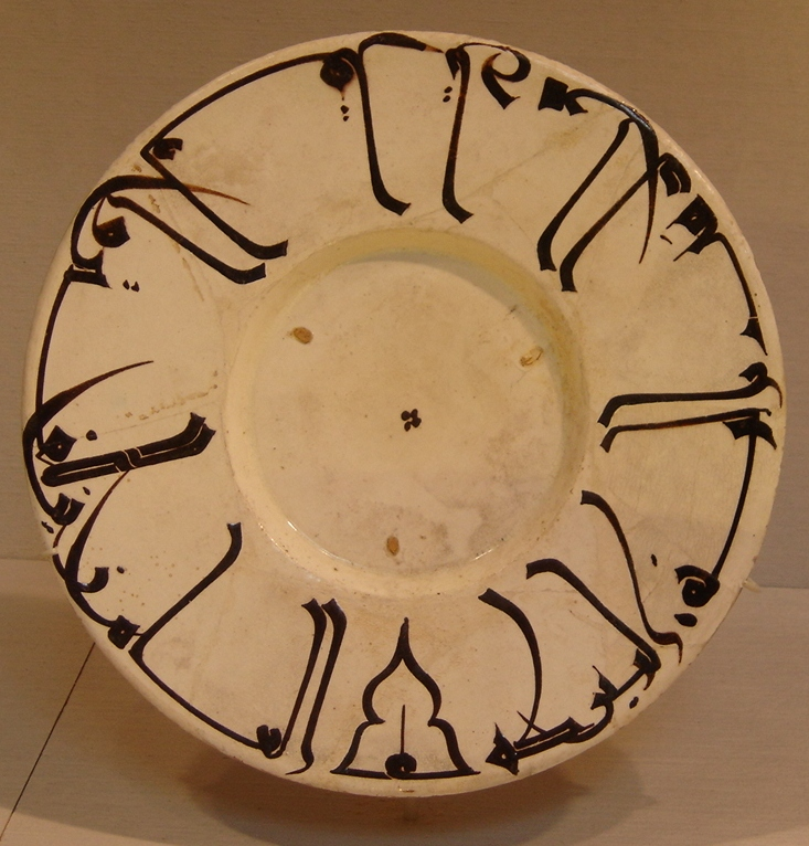 Painted, incised, and glazed earthenware. Dated 10th century, Iran. New York Metropolitan Museum of Art.